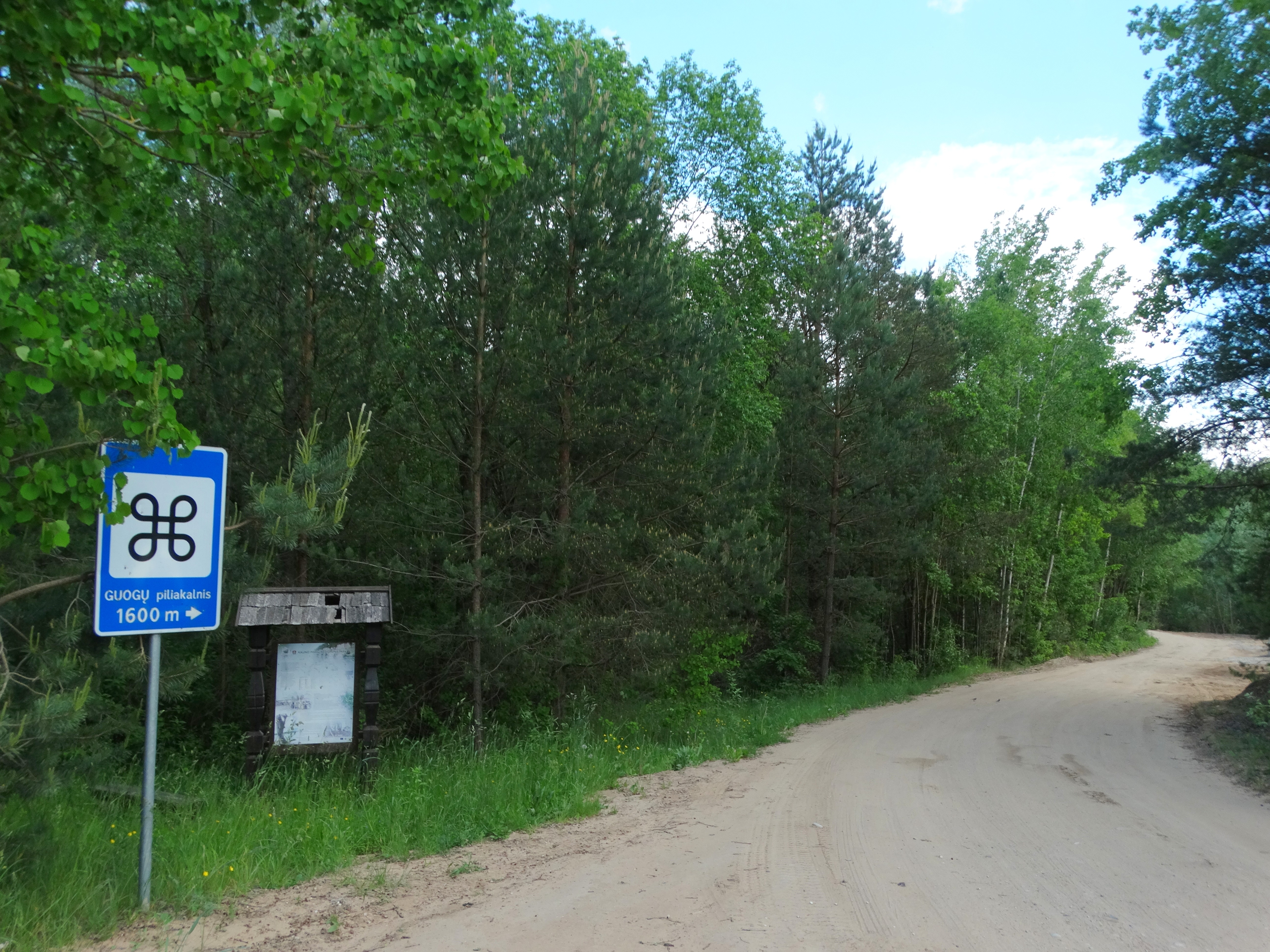 Guogai hillfort, Kaunas district, Lithuania